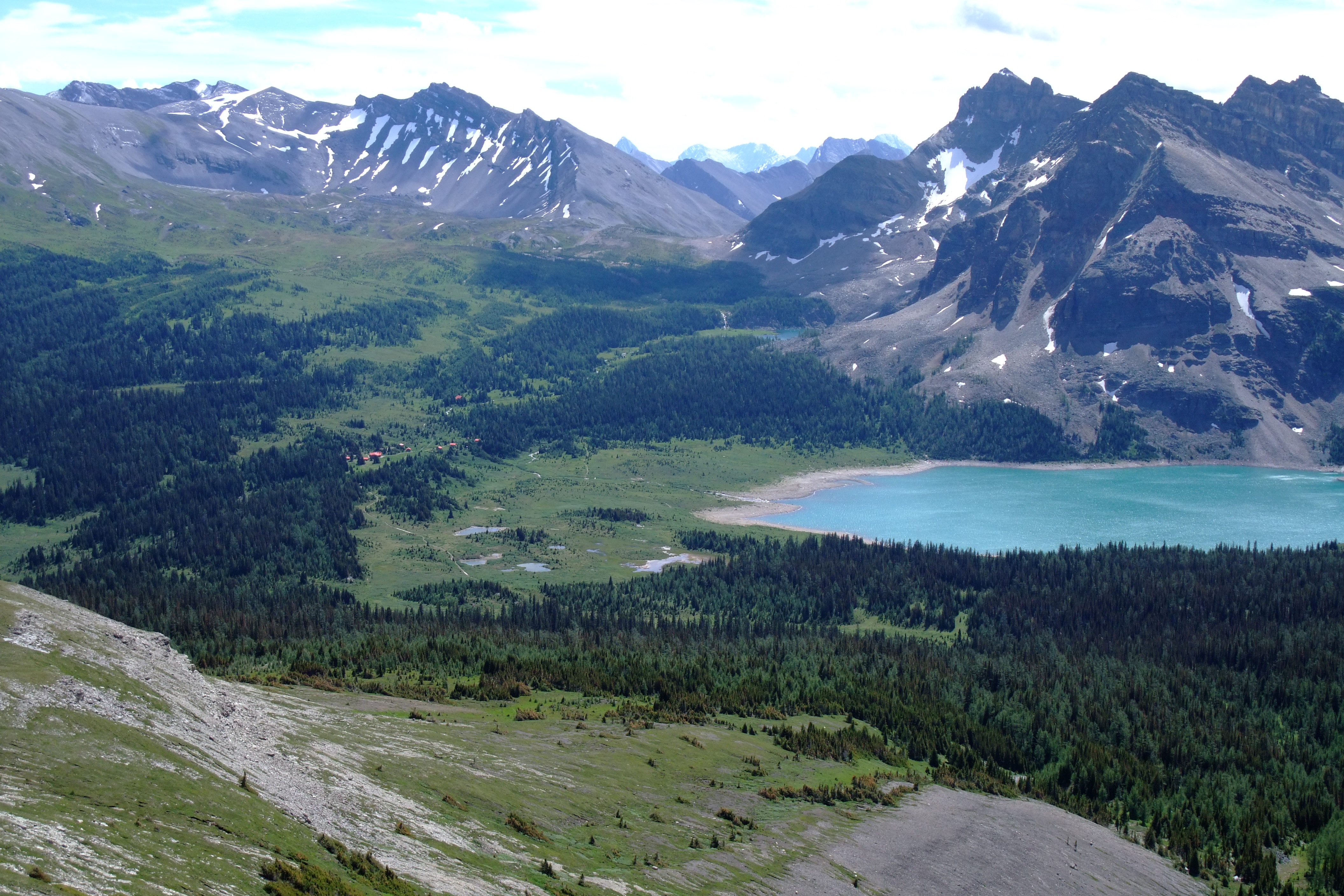 Mount Assiniboine Provincial Park. Area of the Lodge and Naiset Huts. Lake Magog on the right. Mount Cautley (2.880 m) and Wonder Peak (2.851 m) left of Wonder Pass (2.395 m). Naiset Point, "The Towers" (2.846 m) and Terrapin Mountain (2.943 m) above the lake. Picture taken from "The Nublet".